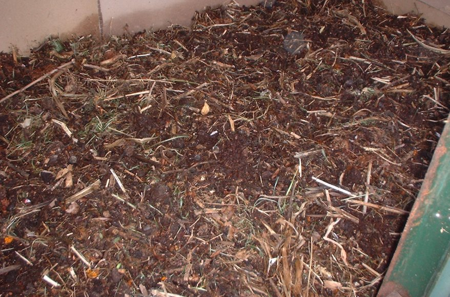 Freshly bedded worm bin, garden waste mixed with finished aerobic compost